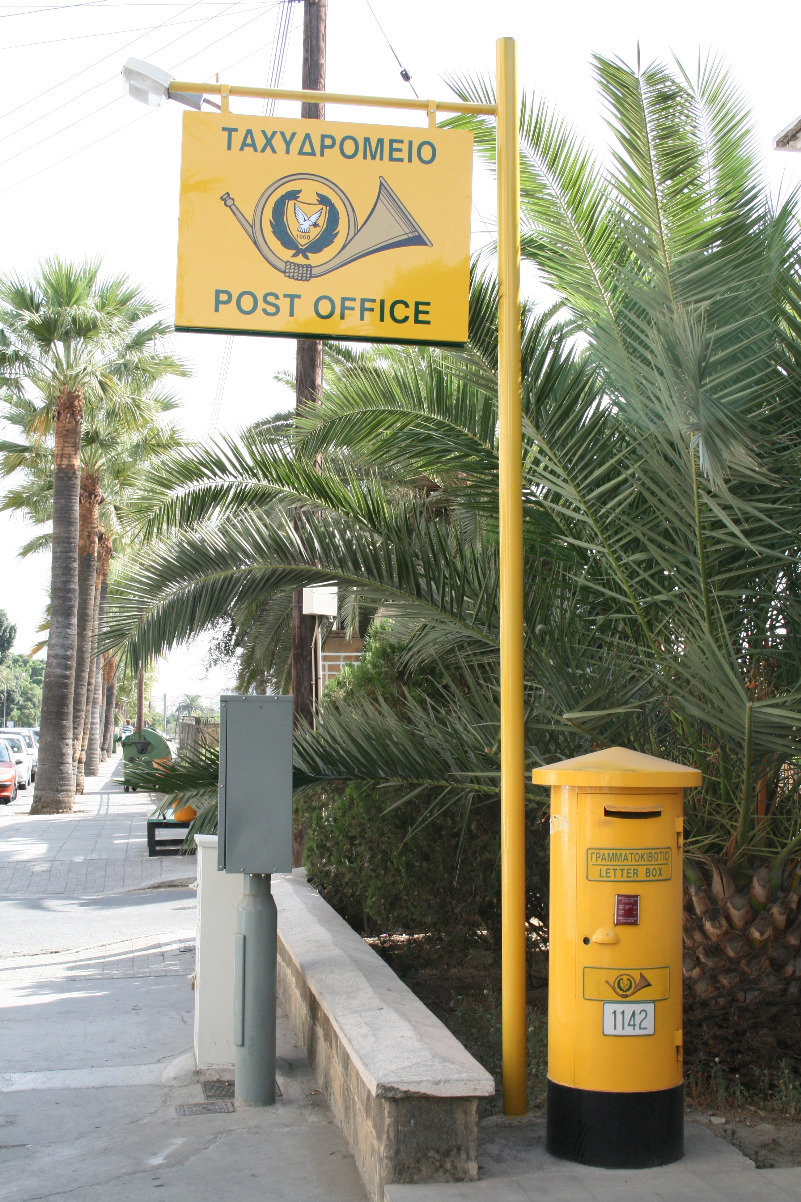 Cyprus Post Office mailbox